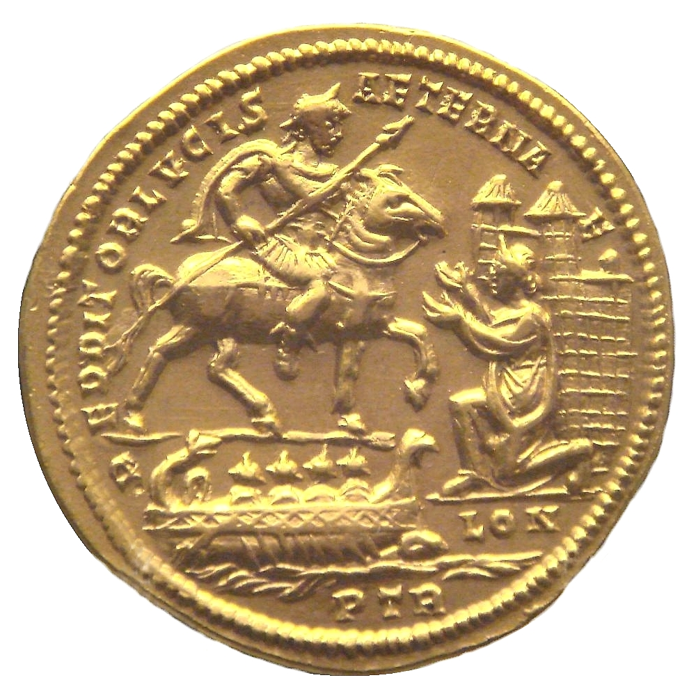 Roman emperor Constantius I capturing London after defeating Allectus, illustrated on a medal/coin from the Beaurains hoard